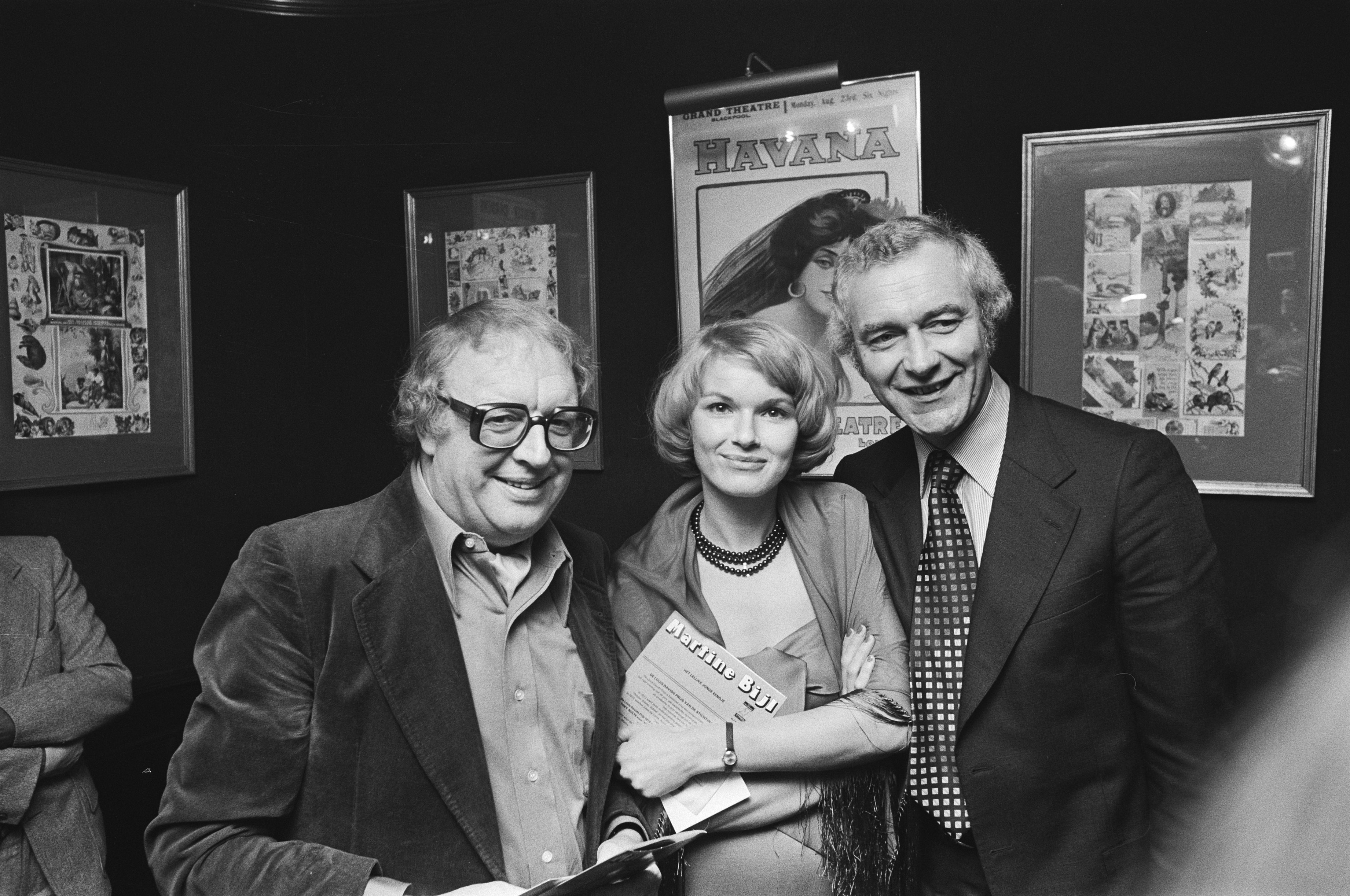 Louis Davids Prize 1976 awarded to Martine Bijl. Left her husband Henk van der Molen, right musician Tony Nolte